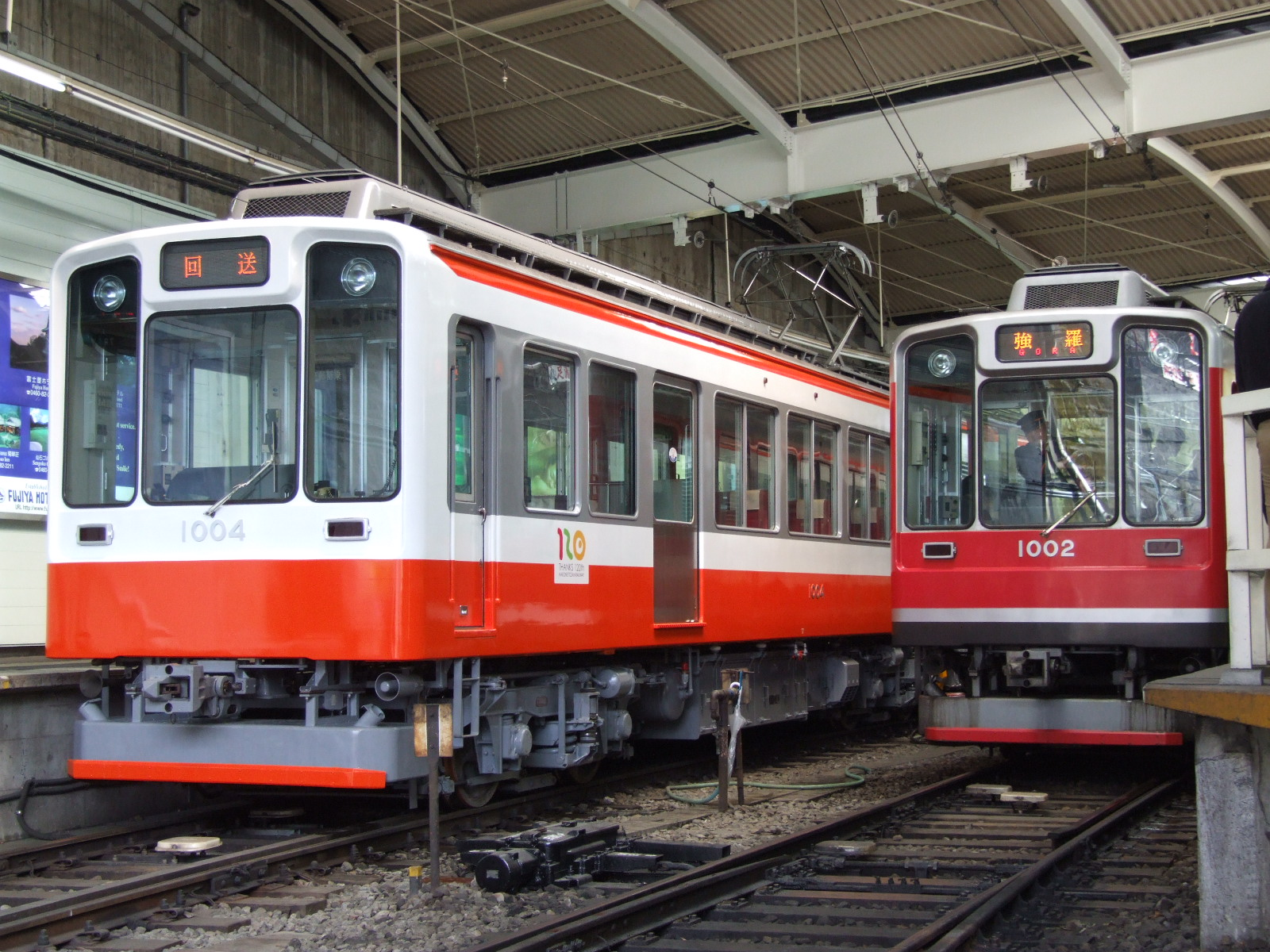 Model 1000,Hakone Tozan Railway,Japan Lover of Romance take a photograph.